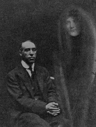 A "Spirit photograph" taken by the Crewe Circle, and the known paranormal hoaxer William Hope. Taken in 1922, this picture depicts paranormal investigator Harry Price and a supposed spirit. It was later shown that Hope had substituted the photographic plates that he was given for ones that had been tampered with to create the illusion of the second figure in this picture.